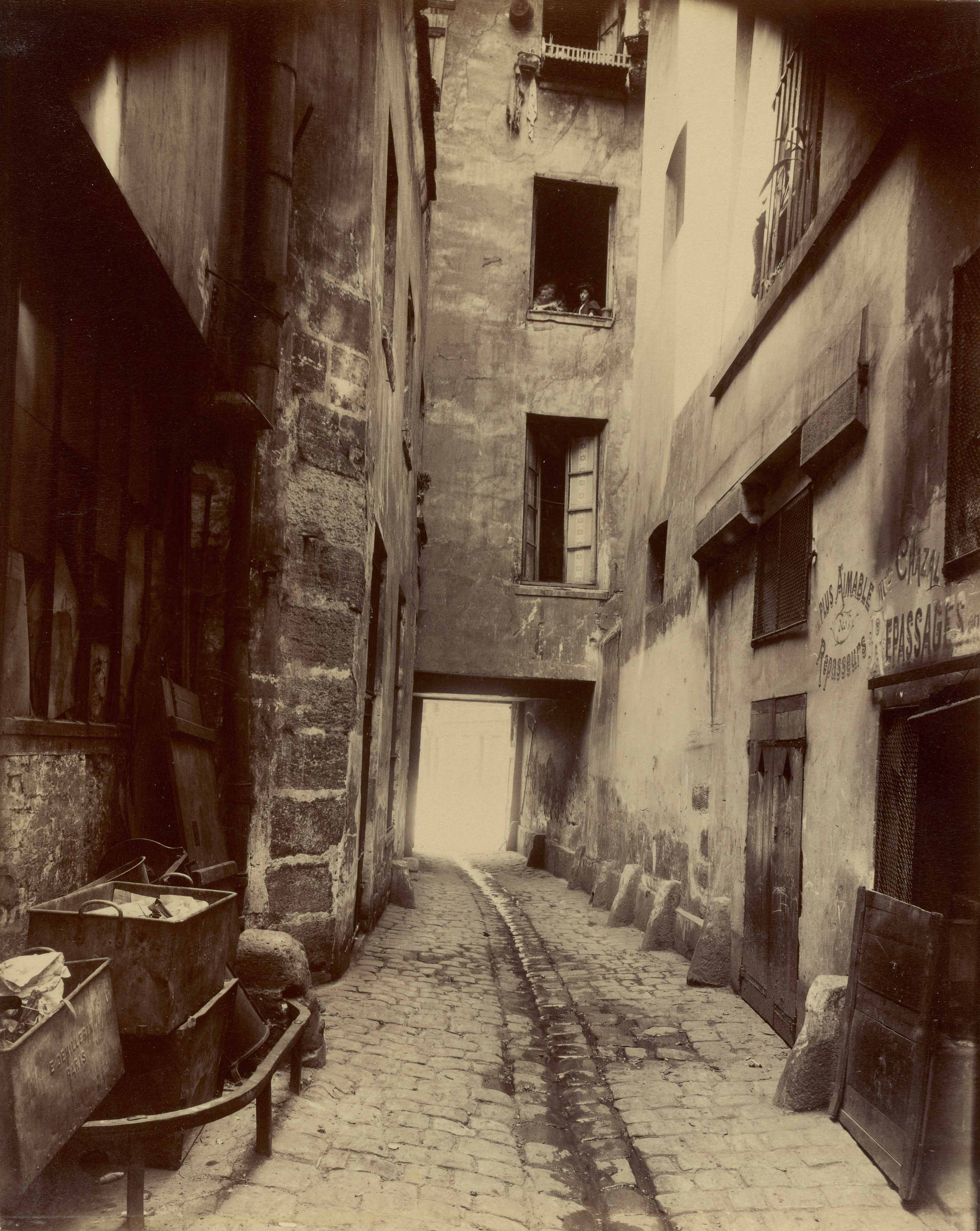 Eugène Atget made a number of prints from the negative of this spiky angular building; this example was exposed for longer than the others during the printing process, yielding a darker composition. As a result, the picture gives the dramatic impression that it was made during that indistinct period of early morning when the sun is rising and night is fading away. Other prints of this image are lighter and, consequently, less striking. To accommodate the tall structure within the parameters of his lens, Atget was forced to position his camera at a considerable distance from the building, filling the foreground with an expansive fork in the road.